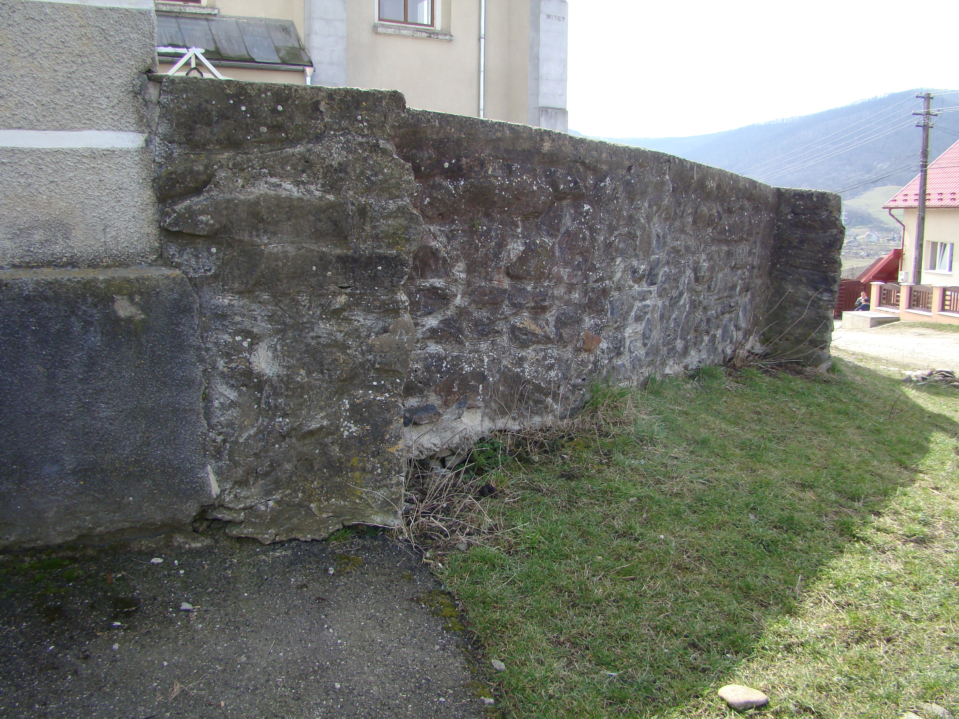 Saint Demetrius church in Crainimăt, Bistrița-Năsăud county, Romania